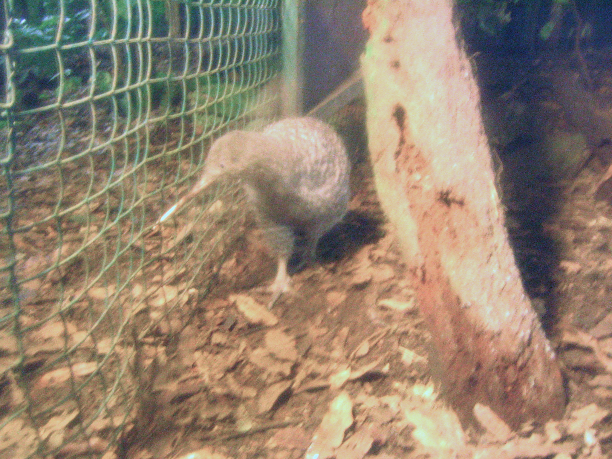 It's almost impossible to see kiwis in the wild in New Zealand without a lot of time and patience. They're pretty rare in captivity too; this one was seen at a kiwi house in Otorohanga.